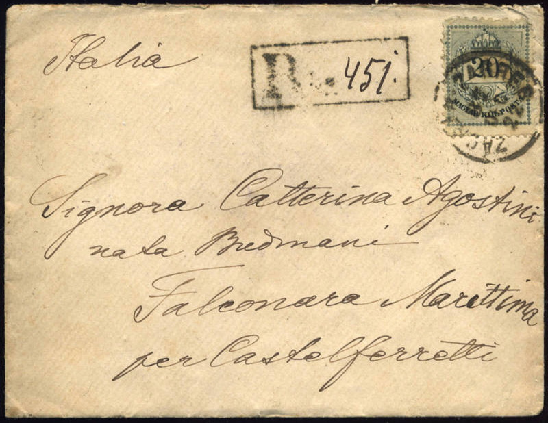 A registered mail cover franked with a Kingdom of Hungary postage stamp issue 1881 (blue 20) and sent from Zagreb in 1887